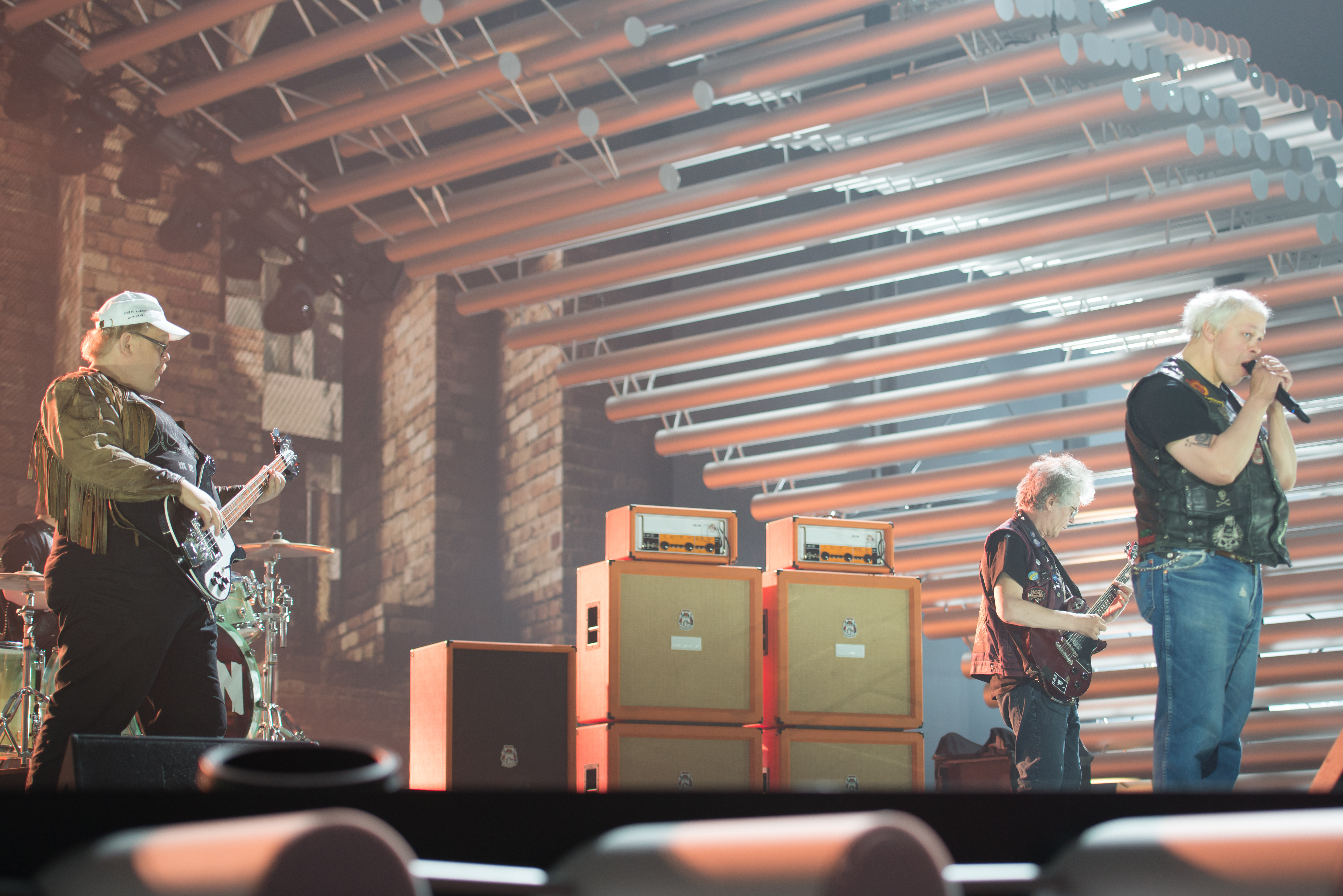 Eurovision Song Contest Vienna 2015: Pertti Kurikan Nimipäivät